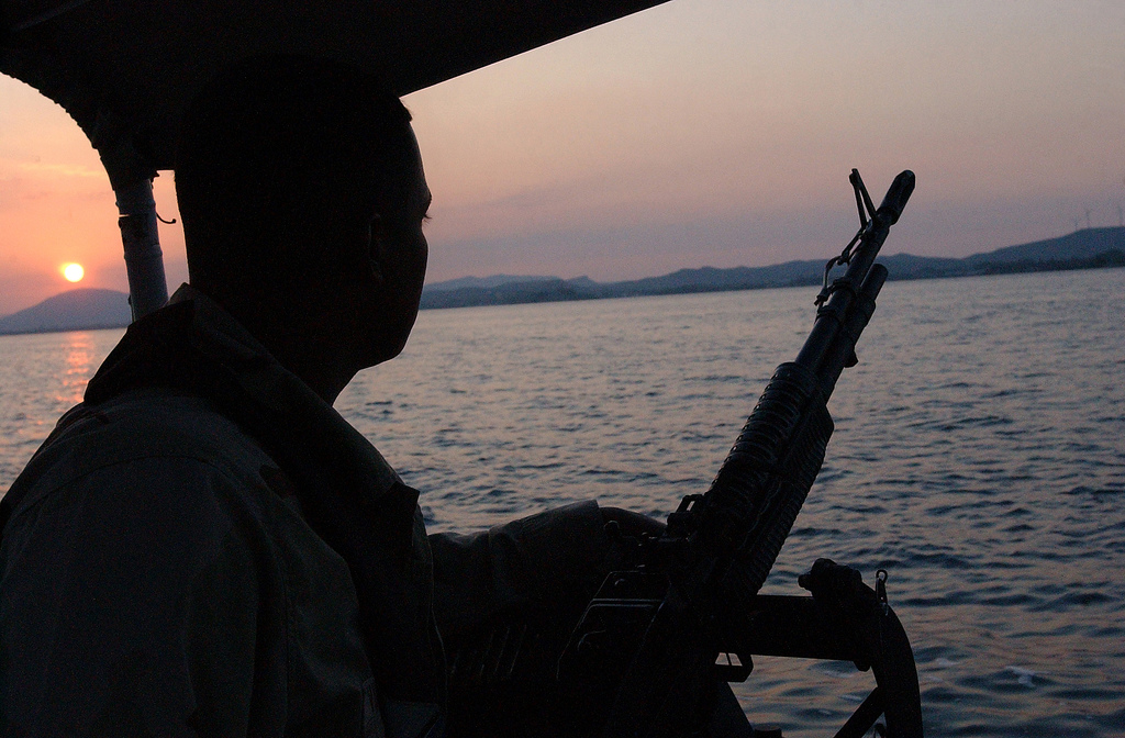 Coast Guard Port Security Unit (PSU) at Guantanamo Bay. The PSU unit was based out of Miami, Florida. Photo by Jeshua Nace of the Joint Task Force Public Affairs Office.